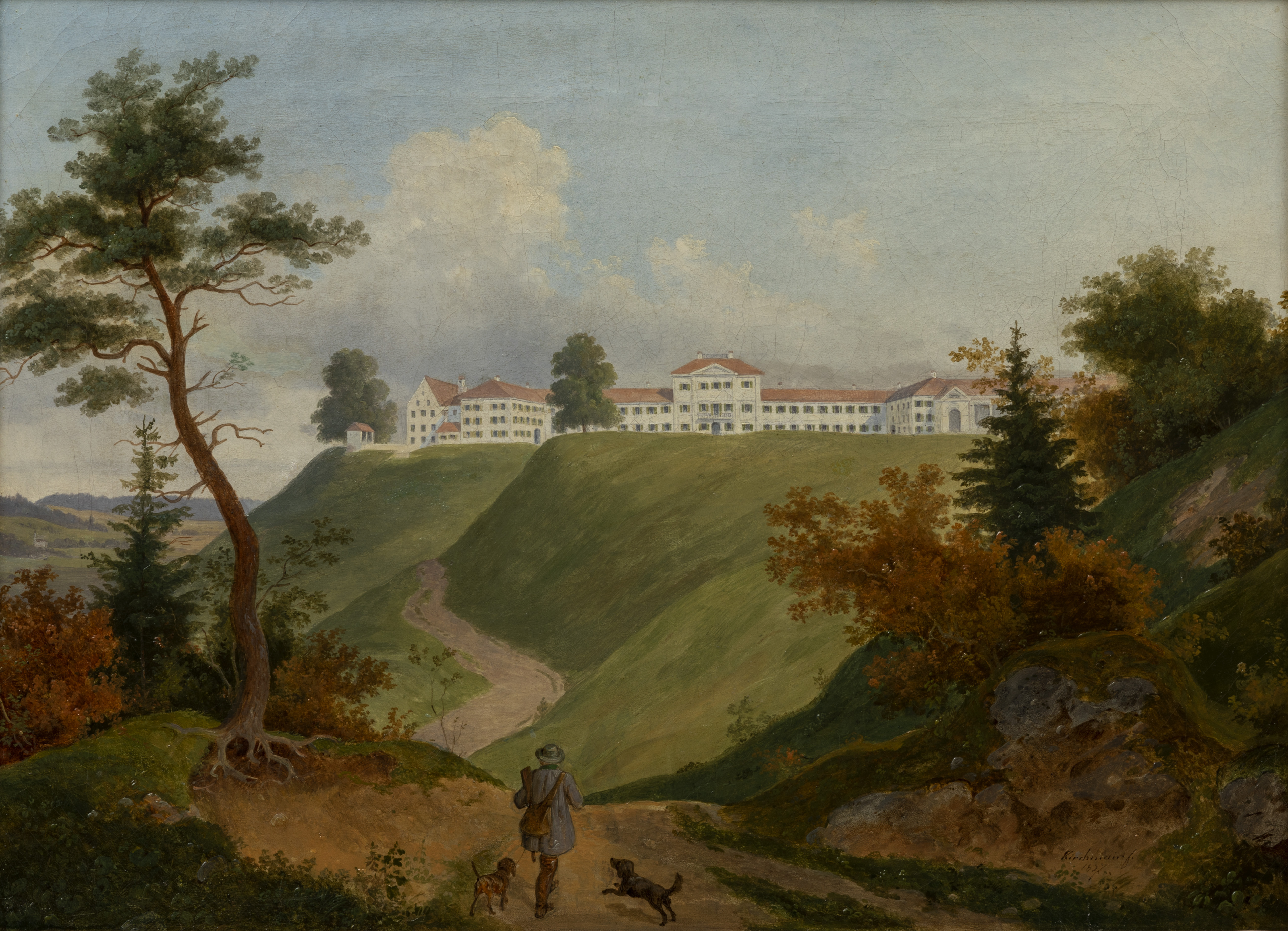 painting